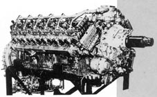 Rolls-Royce Crecy aircraft engine